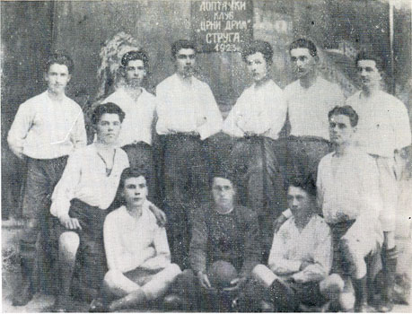 Timot na prviot fudbalski klub vo Struga - 1923 godina